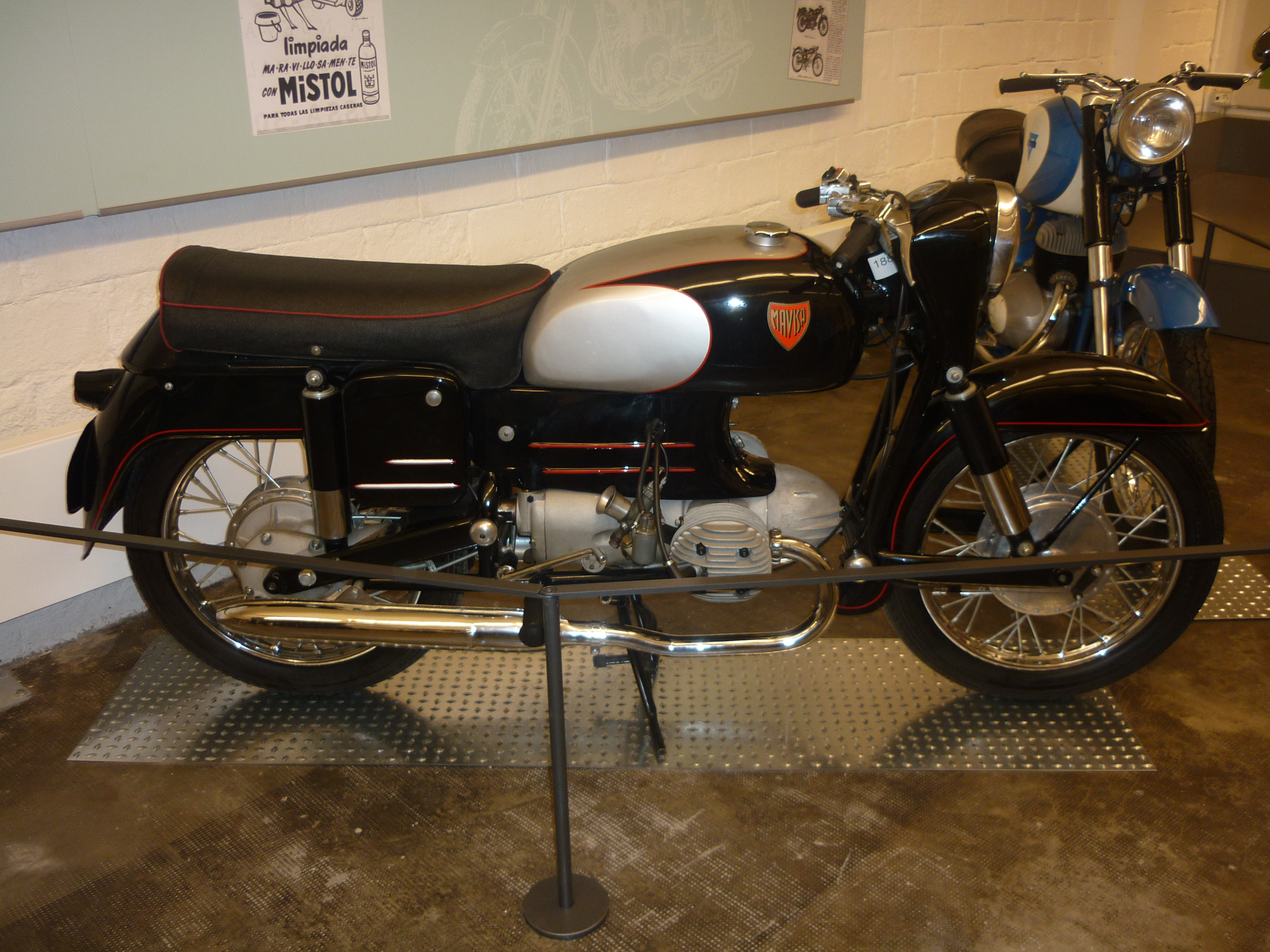 Mavisa Sport 250cc (1957). Museu de la Moto de Barcelona (Catalonia).